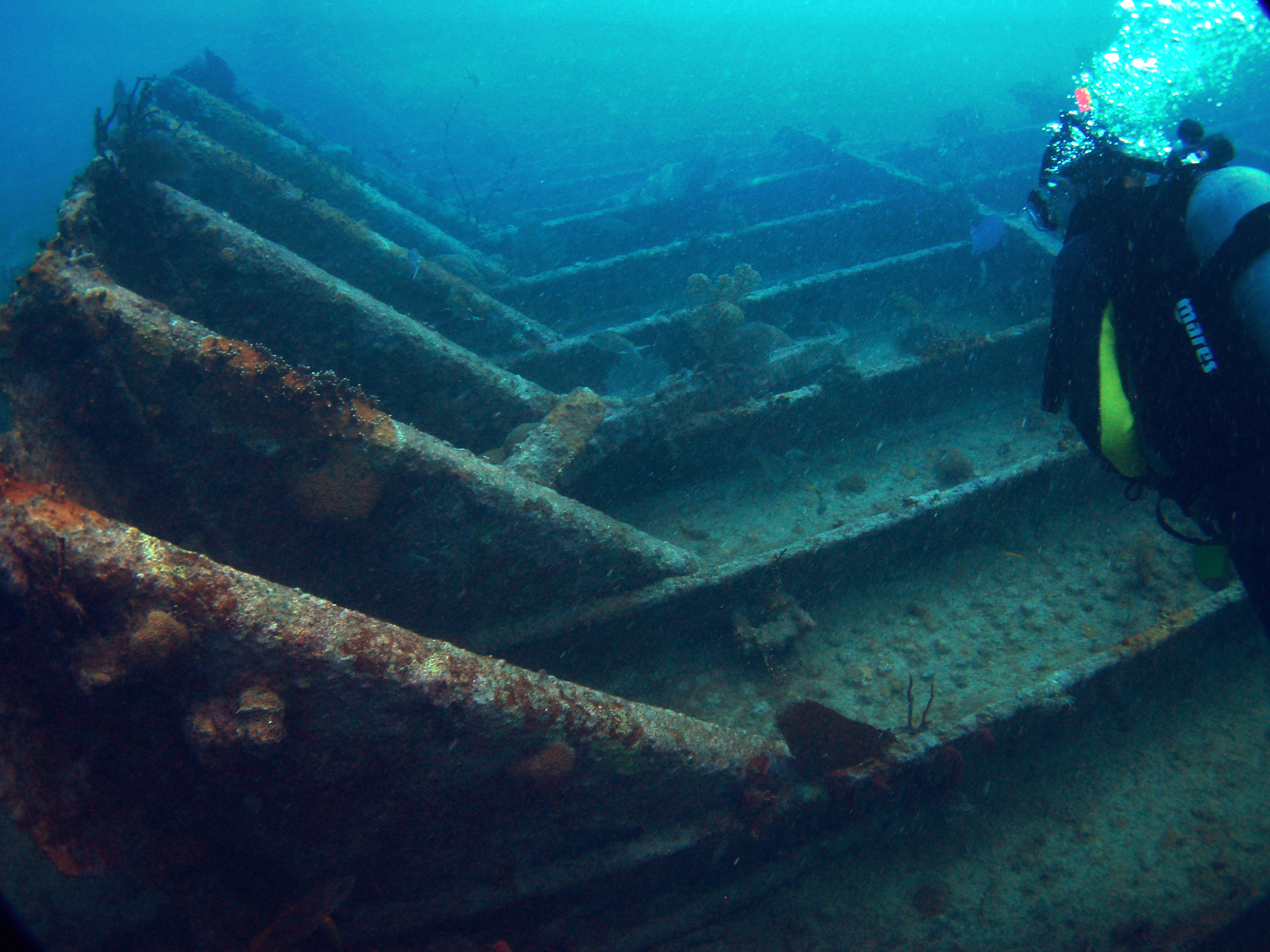 A scuba diver checks out the Benwood shipwreck, sunk off the coast of Key Largo, Florida in 1942.